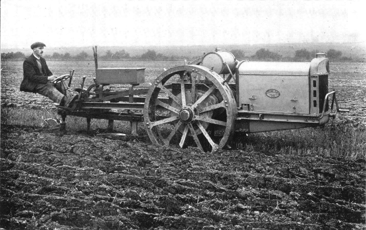 Fig. 415 Fowler motor-plough Fowler motor self-contained plough at work